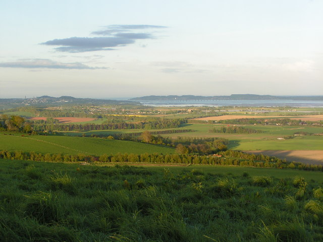 Part of the Carse of Gowrie looking in the direction of Dundee